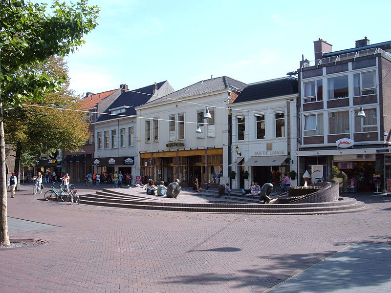 City Center